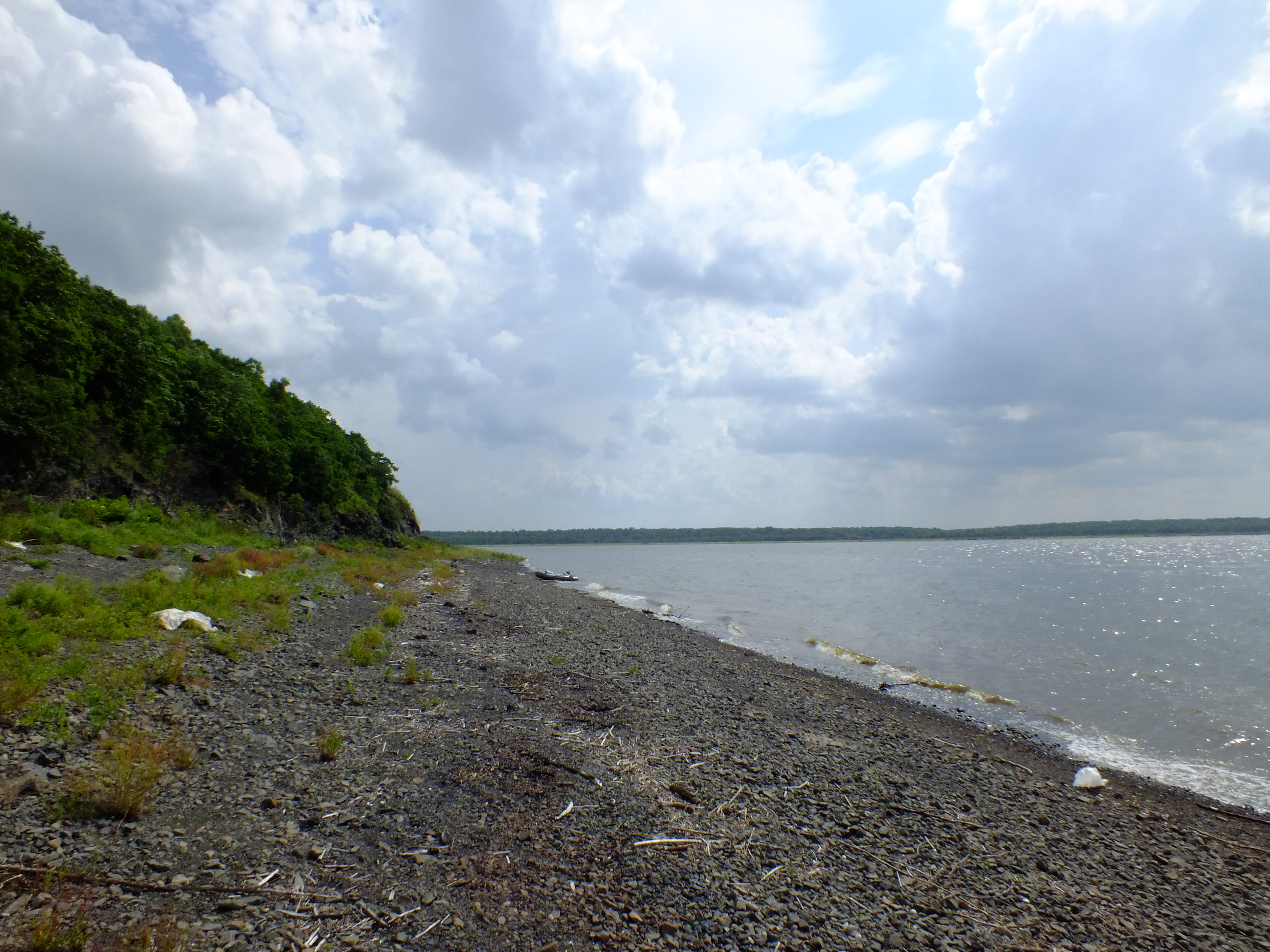 Lake Bolon